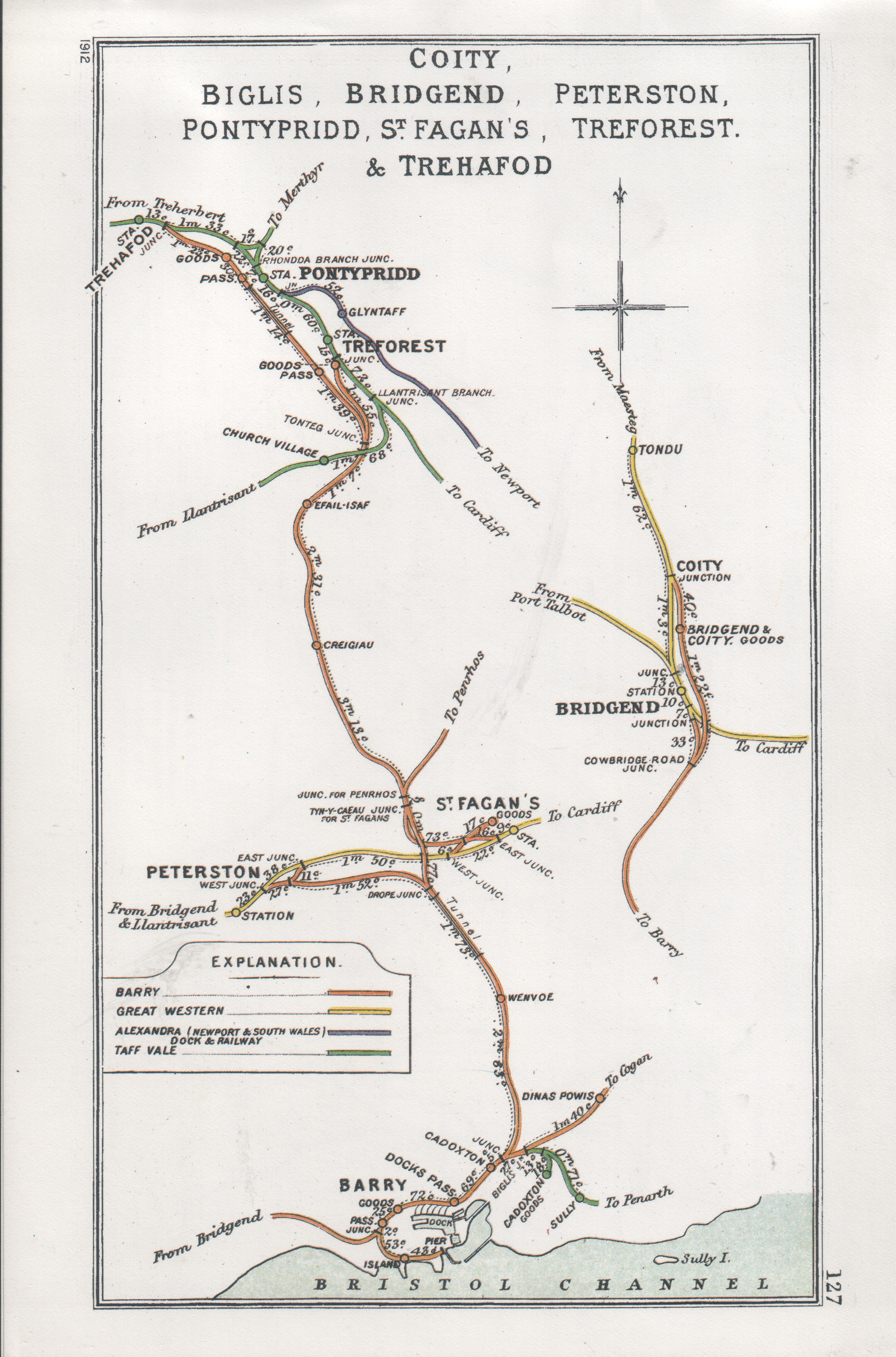 Railway Junctions in Coity, Biglis, Bridgend, Peterston, Pontypridd, St Fagan's, Treforest & Trehafod pre grouping